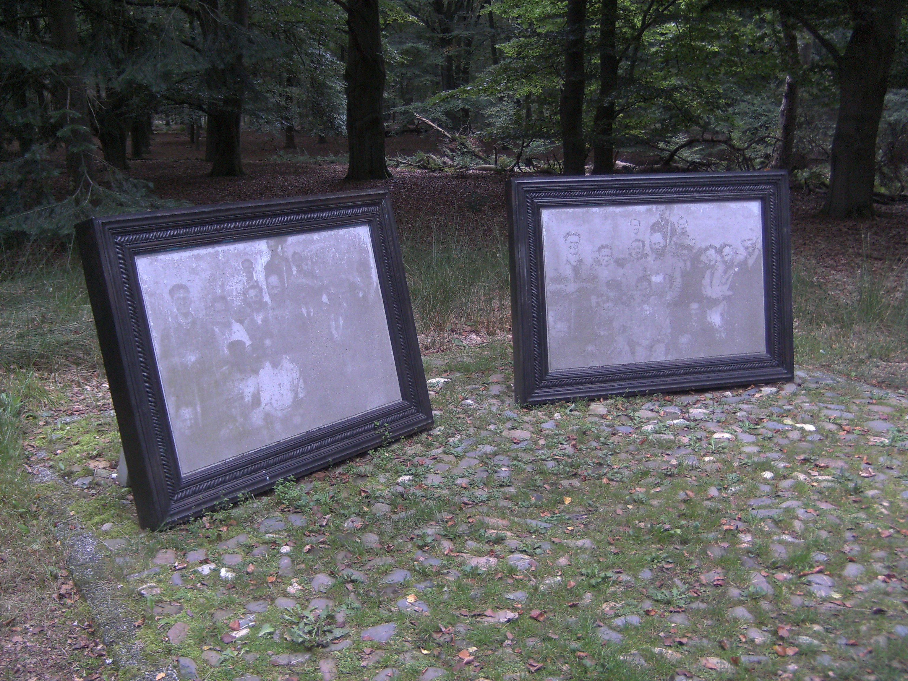 Memorial for jewish forced labourers who lived here in a workcamp in 1942 before send to a concentrationcamp.